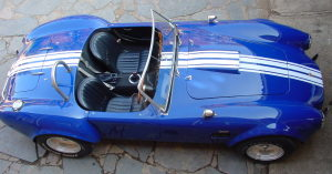 AC Cobra, photographed by owner in South Africa in 2002